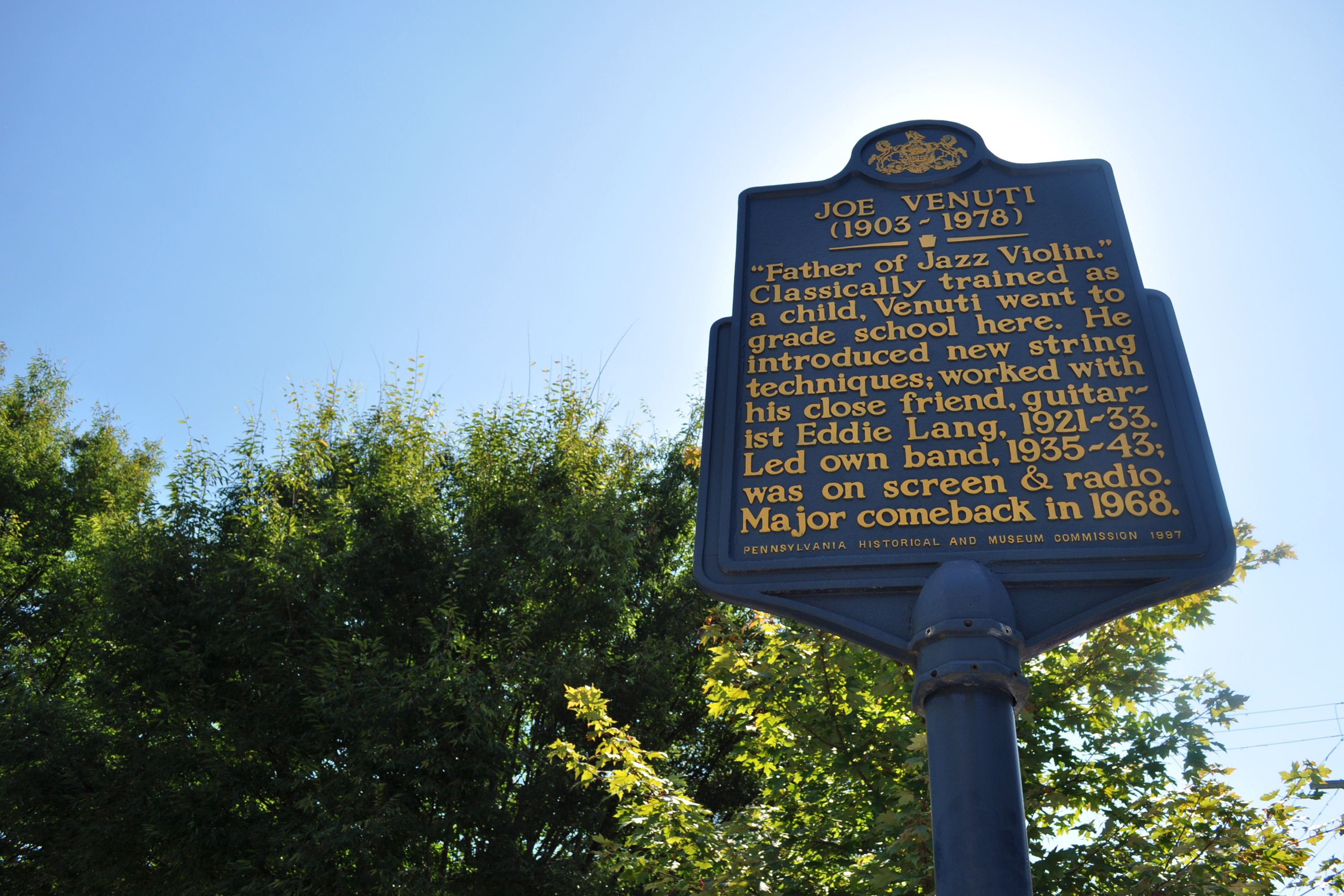 Joe Venuti (1903-1978). "Father of Jazz Violin." Classically trained as a child, Venuti went to grade school here. He introduced new string techniques; worked with his close friend, guitarist Eddie Lang, 1921-33. Led own band, 1935-43; was on screen & radio. Major comeback in 1968. (Historical Marker at NE Corner S 8th and Fitzwater Sts Philadelphia PA 19147 - PA Historical & Museum Commission 1997)